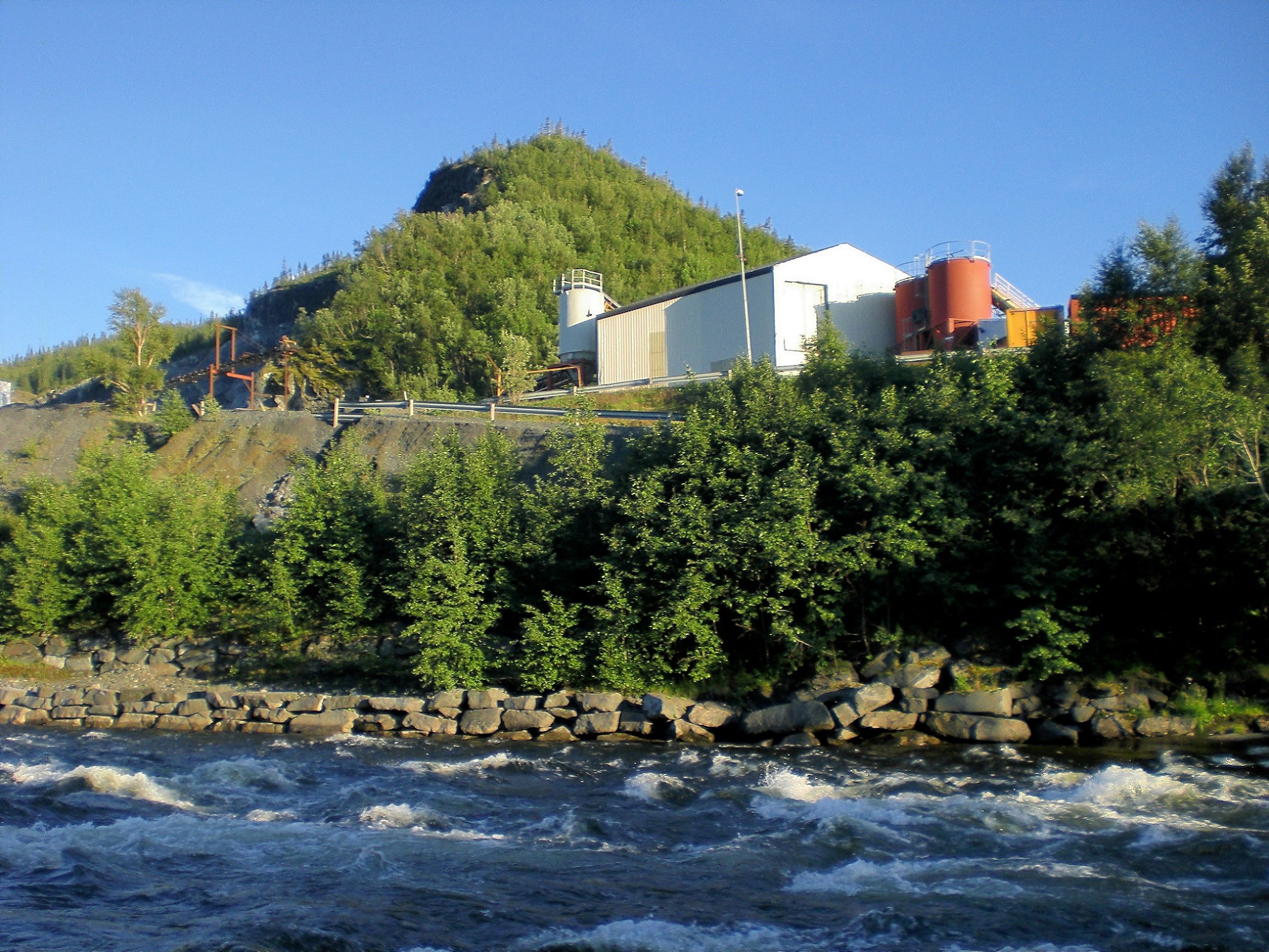 Veset Knuseverk Lemminkäinen.